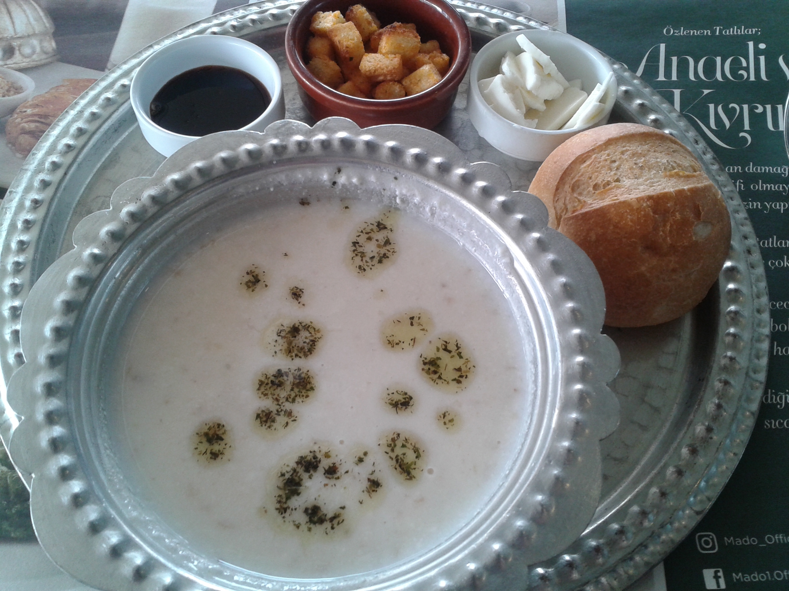 Tarhana soup with croutons, goat's cheese, "pekmez" to balance the sour taste of the soup, and bread roll at a Maraş-style restaurant in Ankara.